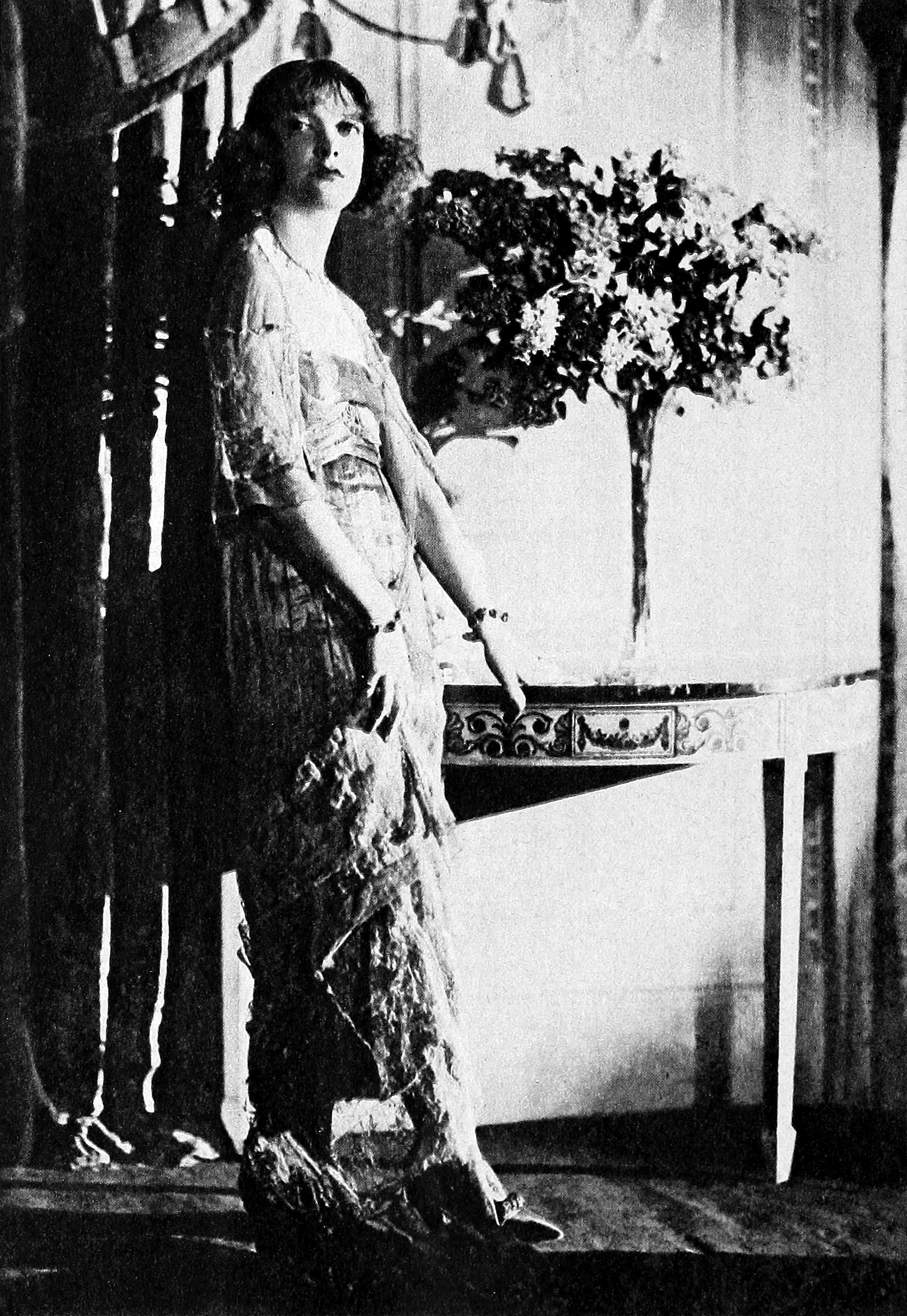 Actress Estelle Winwood on page 24 of the January 1920 Shadowland.